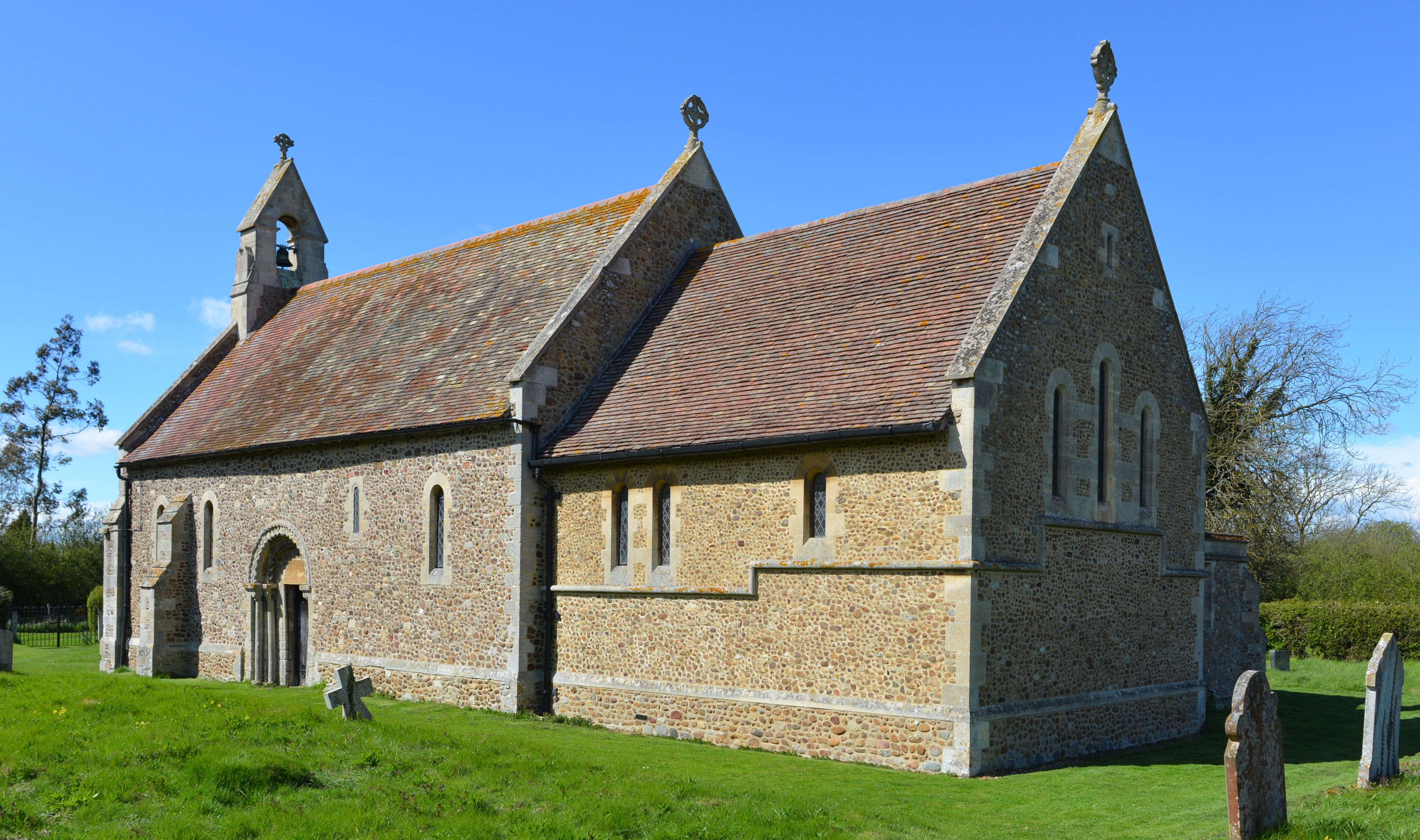 St Michael church Toseland, Cambridgeshire, viewed from the southeast April 2016